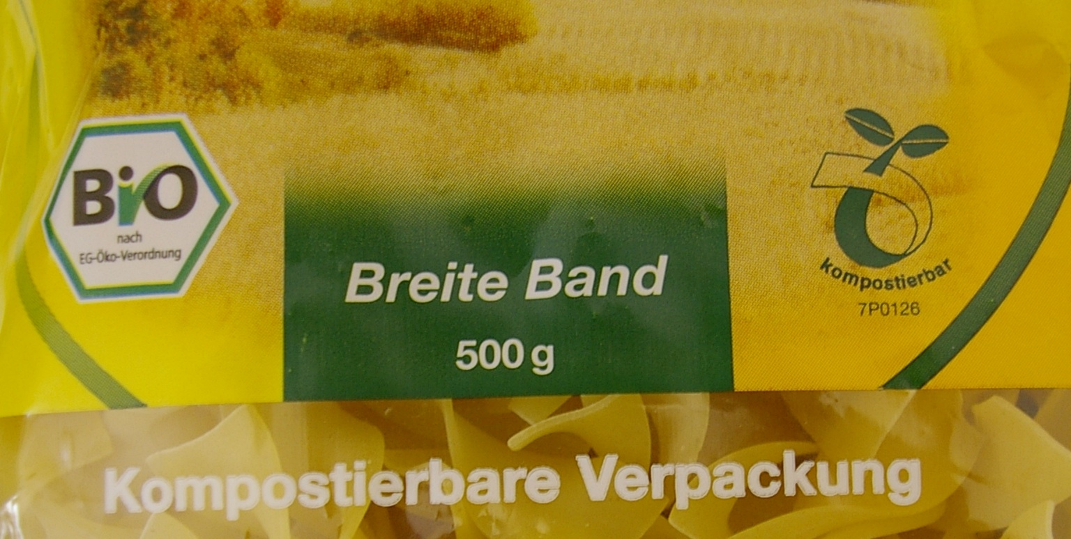 Packaging made by bioplastics (Cellulose-based), Detail